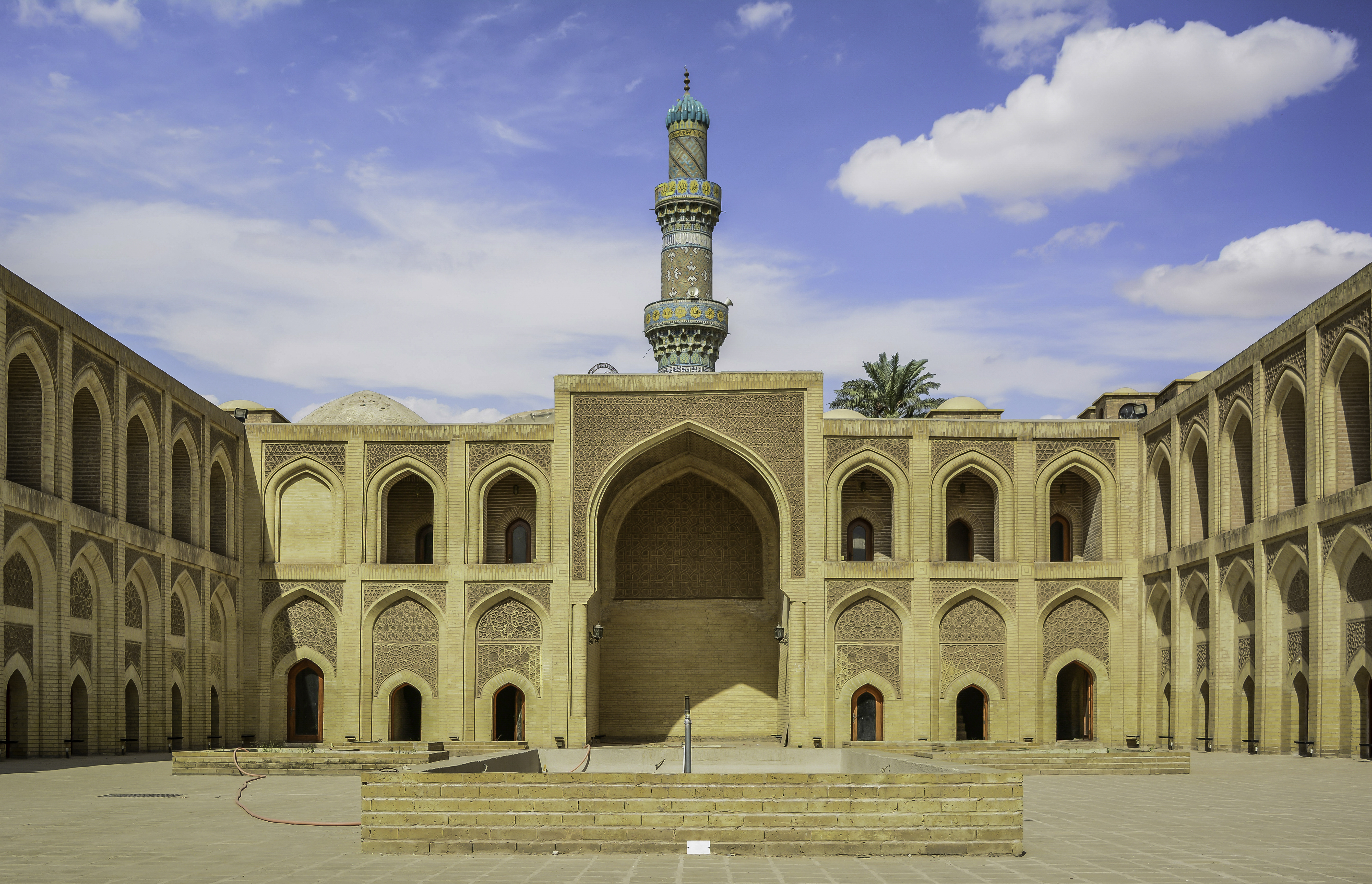 The oldest school in Baghdad built in 1233by Khalif Mustansir Billah during Abbasid era .